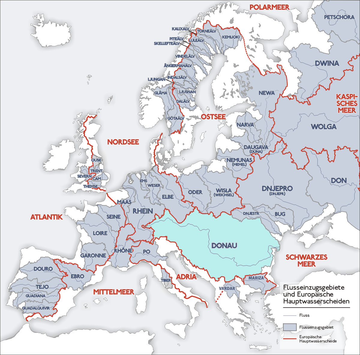 The blue area is the Drainage basin of Danube.